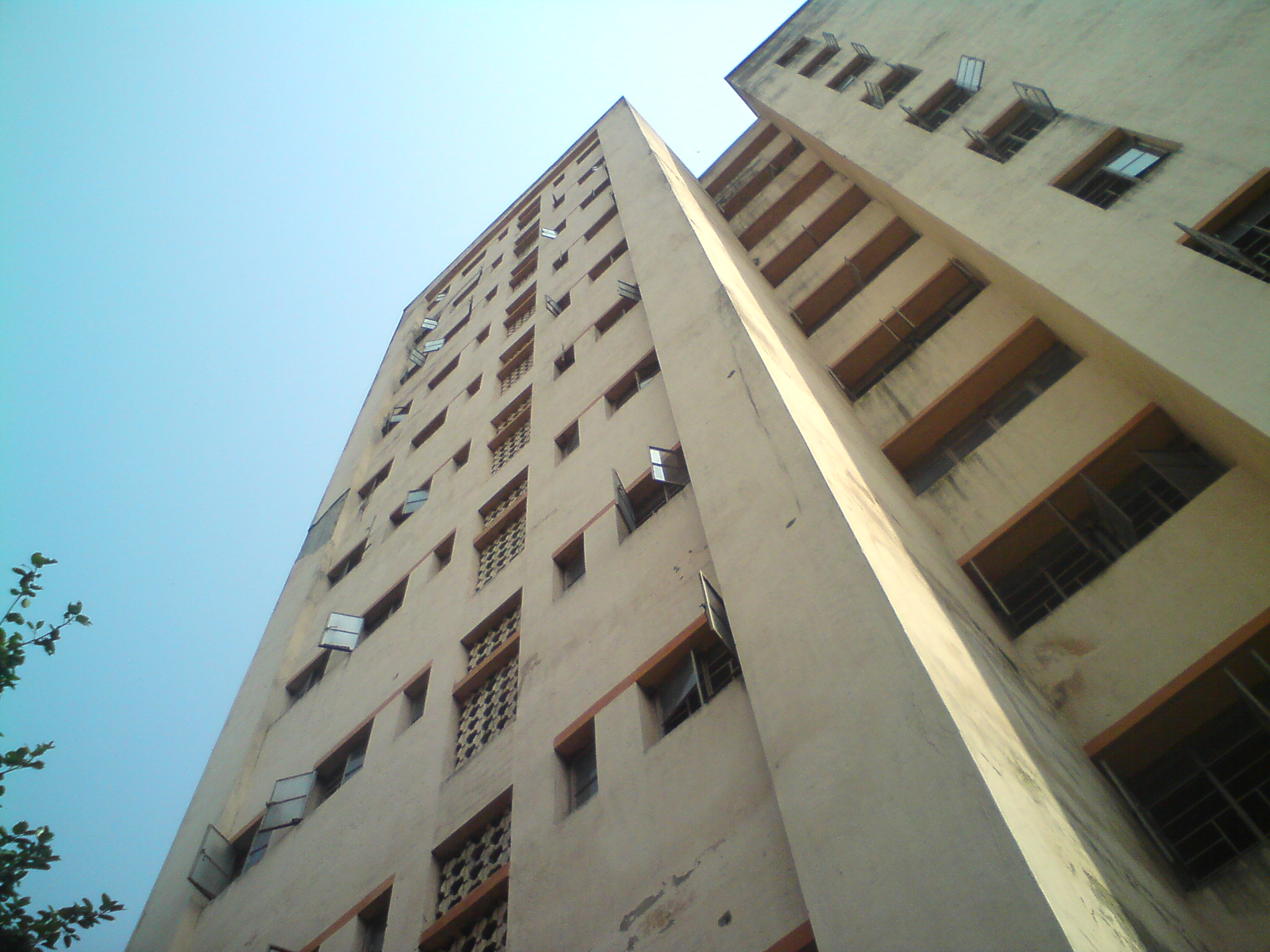 Department of Business Management, University of Calcutta; MBMCU campass